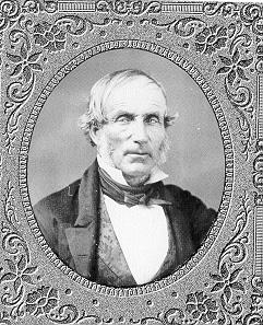 image is over 100 yrs old